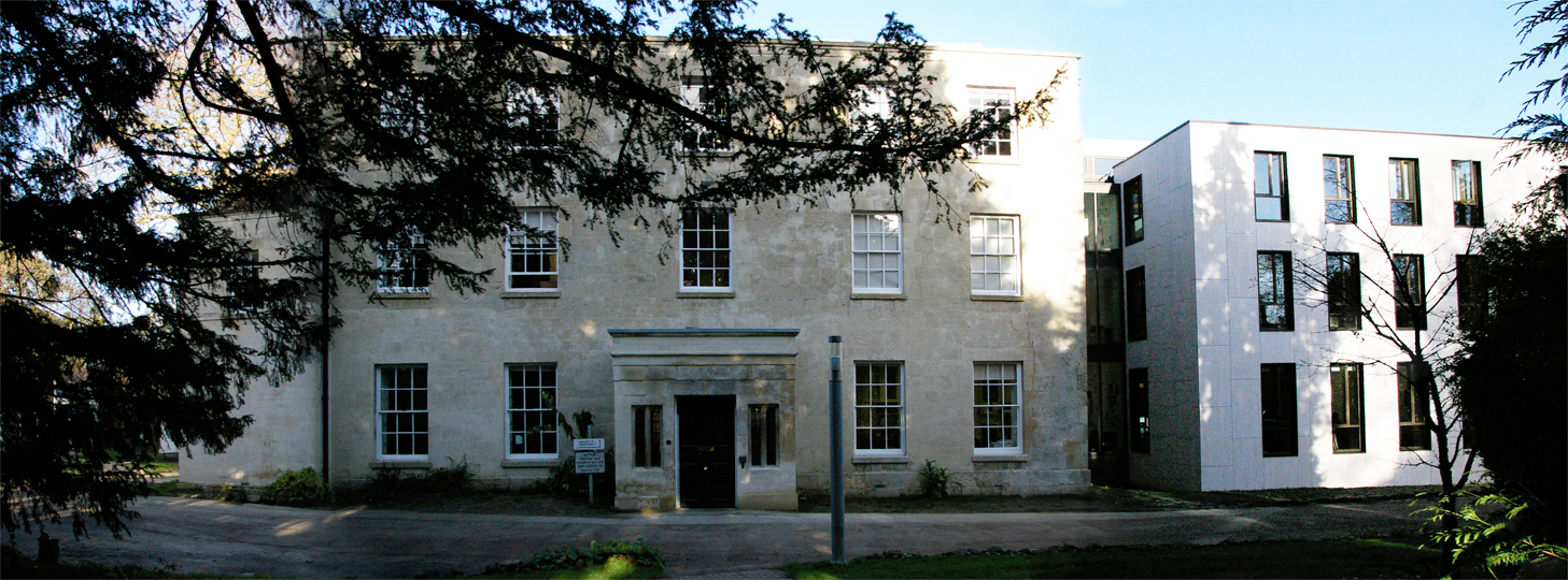 The Rookery building which underwent an extensive refurbishment in 2012 to include a new Academic extension